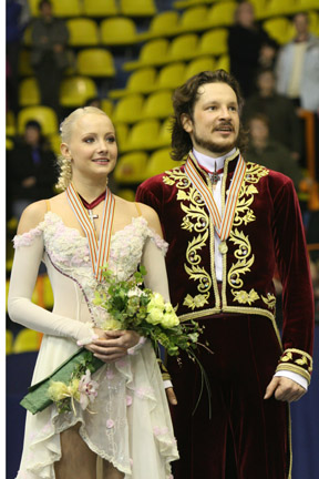 Oksana Domnina & Maxim Shabalin during the medals ceremony at the 2008 European Figure Skating Championships